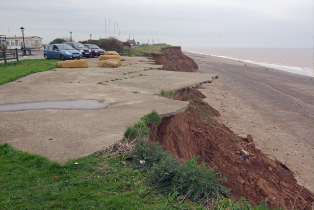 Tunstall Cliffs, Tunstall, East Riding of Yorkshire, England.The effects of coastal erosion can clearly be seen here; the remains of this concrete hard standing - originally for caravans - look distinctly precarious and won't survive long. Compare this with TA3131 : Tunstall Cliffs. The caravan park is called Sand-le-Mere which recalls the former Sandley Mere - one of a number of Holderness meres, of which only the one at Hornsea survives.